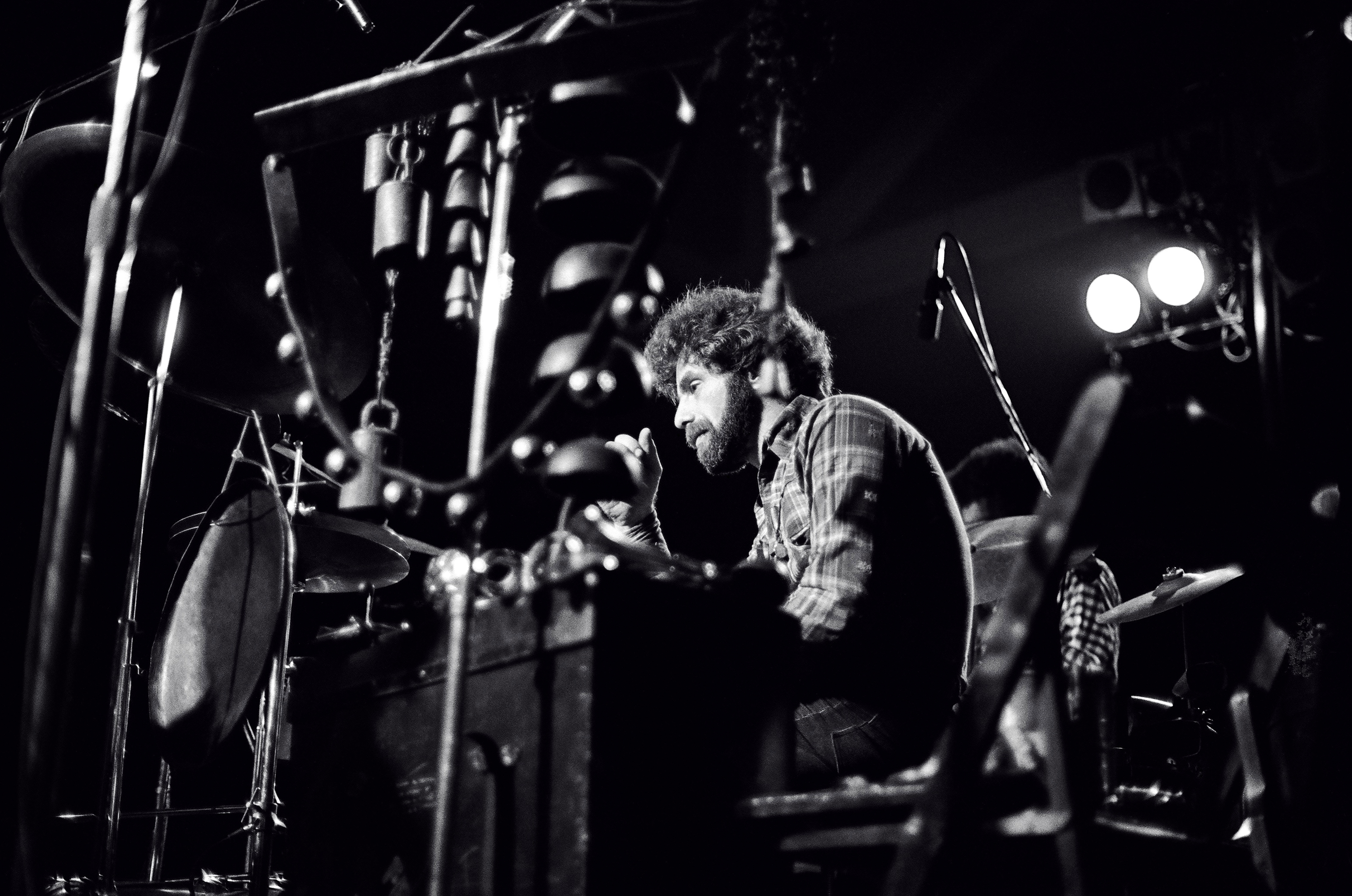 Barry Altschul with the Anthony Braxton Trio Brockport, N.Y. 1976